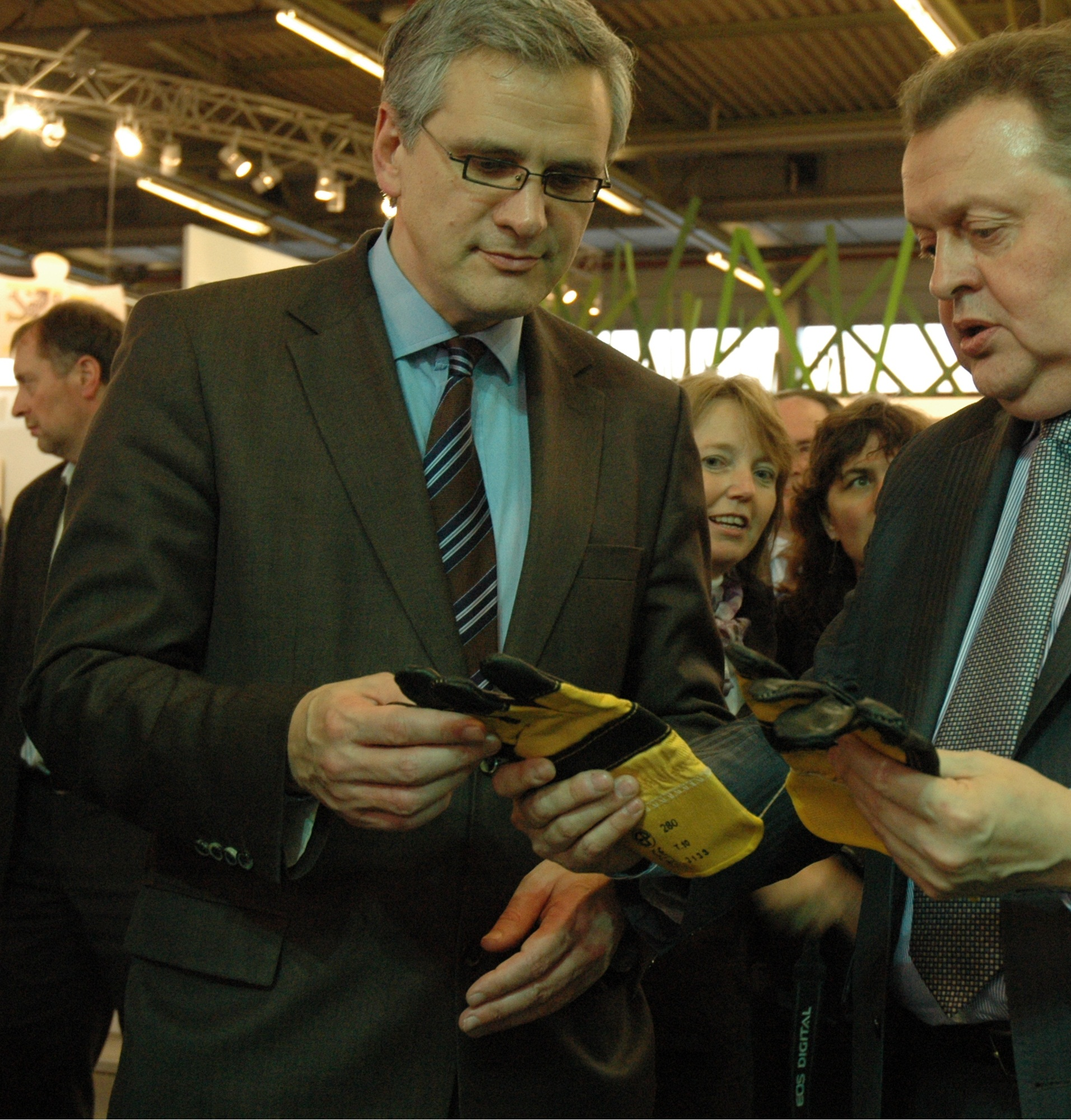 Kris Peeters (left) and Piet Vanthemsche (right)